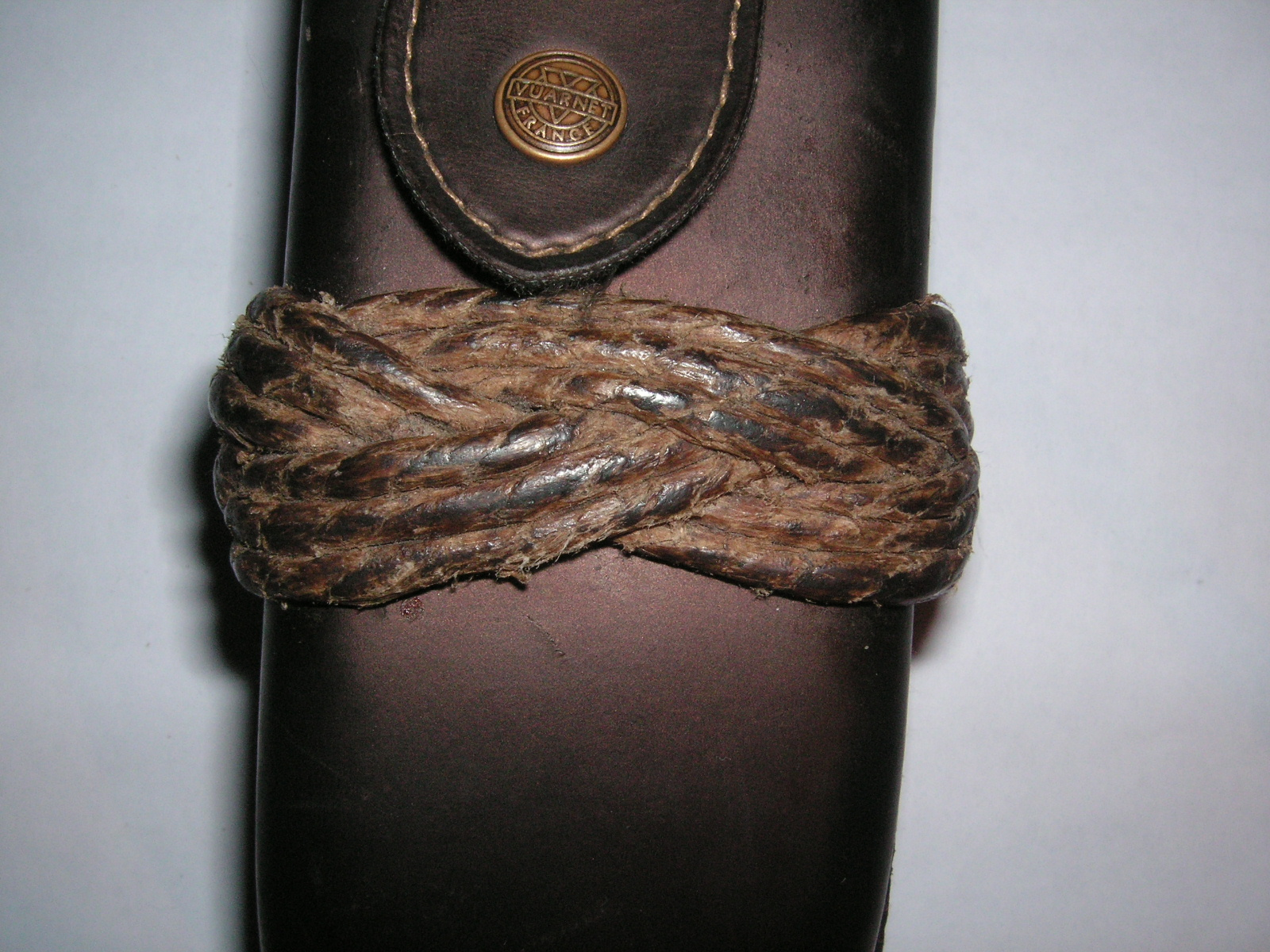 This work has been released into the public domain by its author, Sebbe.wigmo at the Swedish Wikipedia project. This applies worldwide. In case this is not legally possible: Sebbe.wigmo grants anyone the right to use this work for any purpose, without any conditions, unless such conditions are required by law.